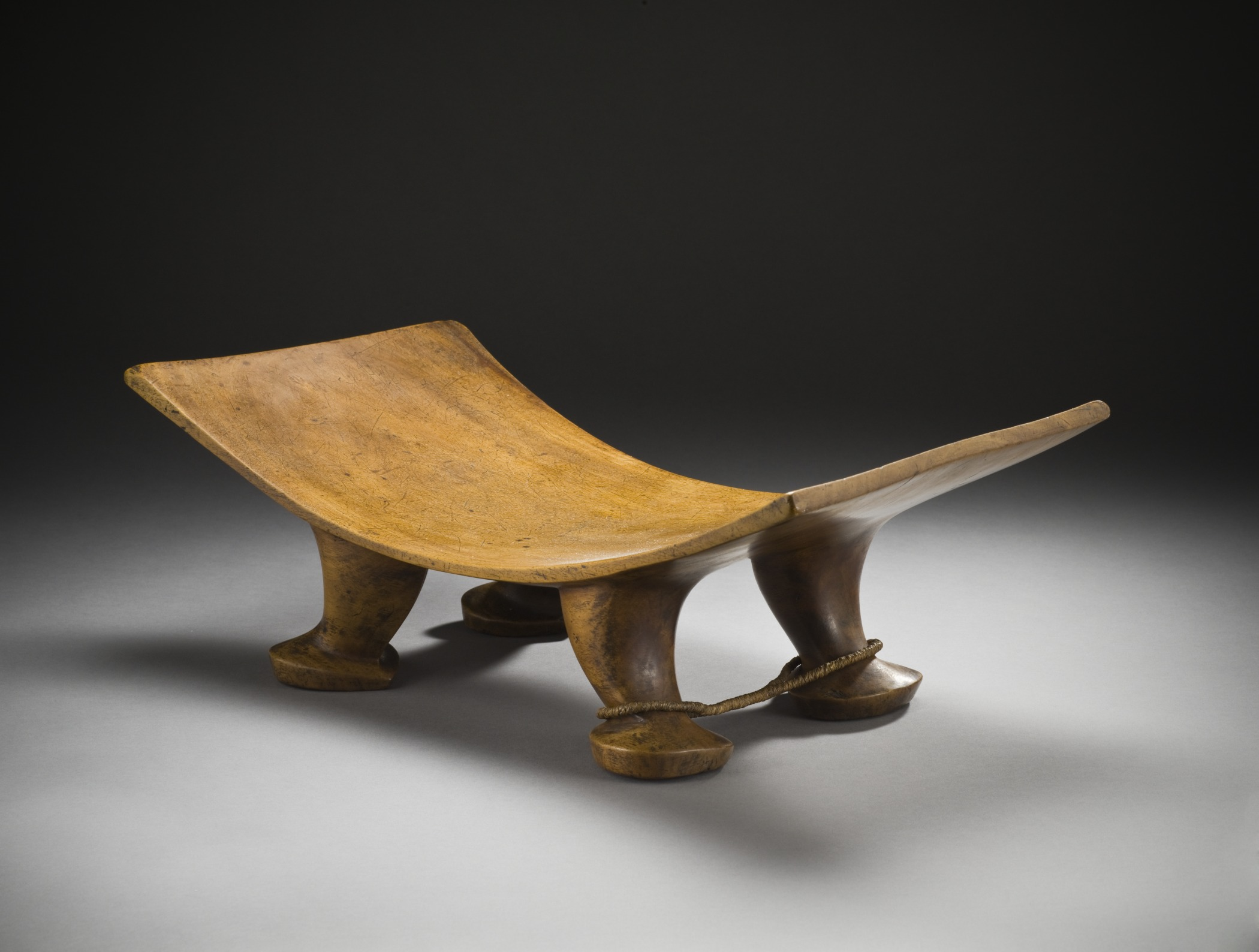 Cook Islands, possibly Atiu, circa 1830 Furnishings; Furniture Wood and fiber 5 5/8 x 17 3/8 x 8 3/8 in. (14.29 x 44.13 x 21.27 cm) Purchased with funds provided by the Eli and Edythe Broad Foundation with additional funding by Jane and Terry Semel, the David Bohnett Foundation, Camilla Chandler Frost, Gayle and Edward P. Roski and The Ahmanson Foundation (M.2008.66.2) Art of the Pacific Currently on public view: Ahmanson Building, floor 1